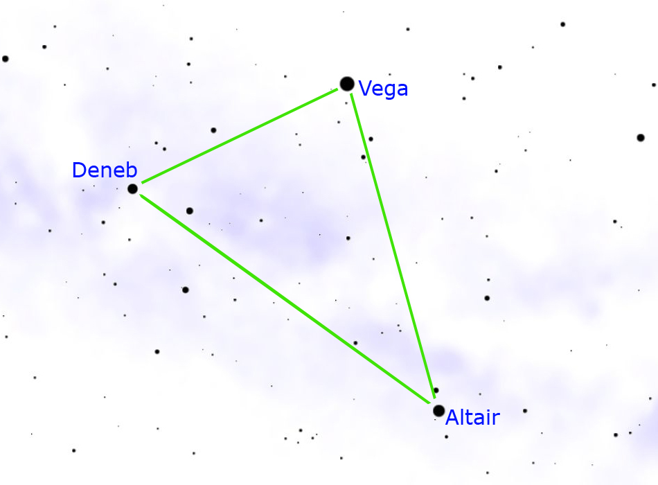 free screen from Perseus (as written in Readme file)